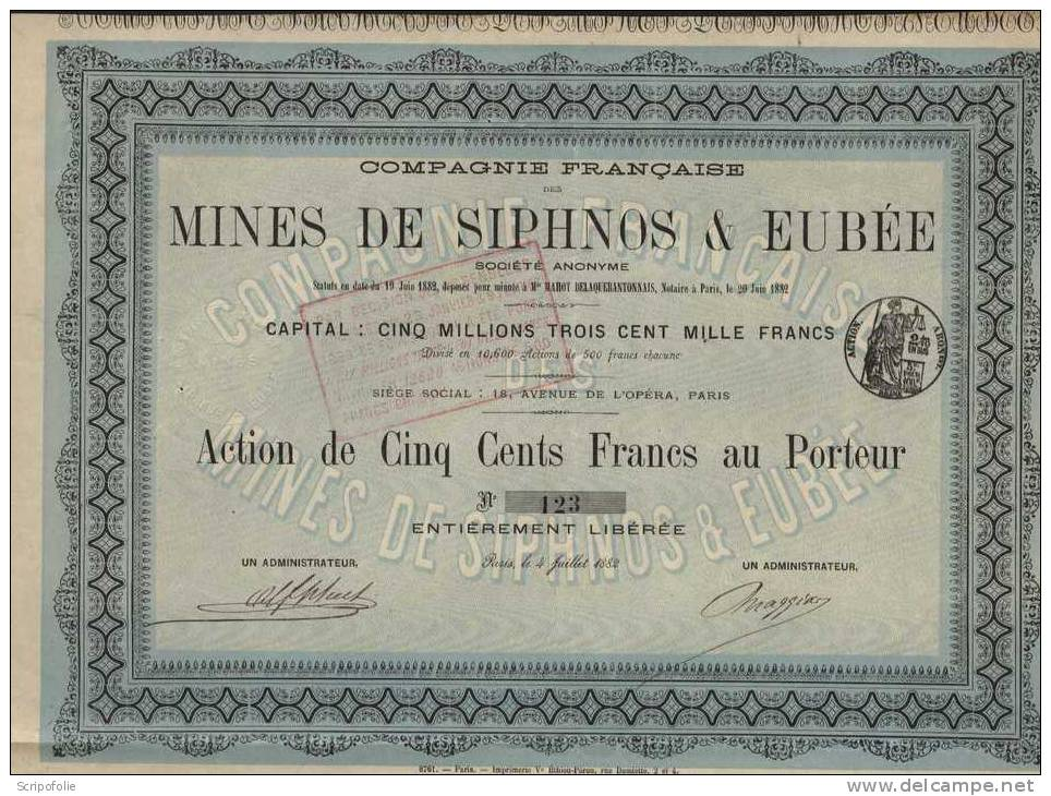 Share of the company «Compagnie Française Mines de Siphnos & Eubée», 1882. The company was French, but operated in Greece